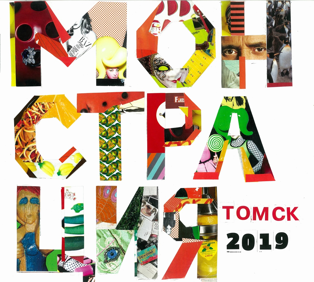 White square, russian letters placed on it to the word 'Монстрация' that translates as Monstration